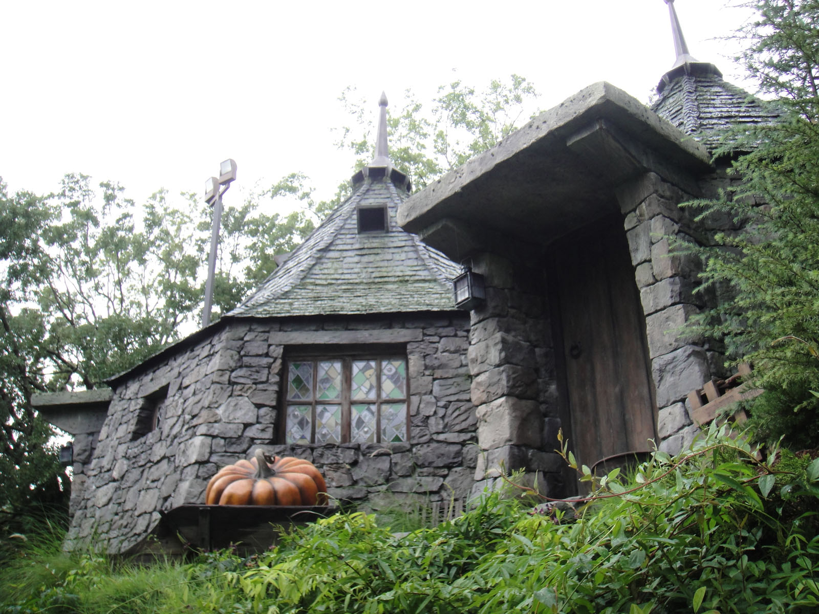 Wizarding World of Harry Potter - Hagrid's hut